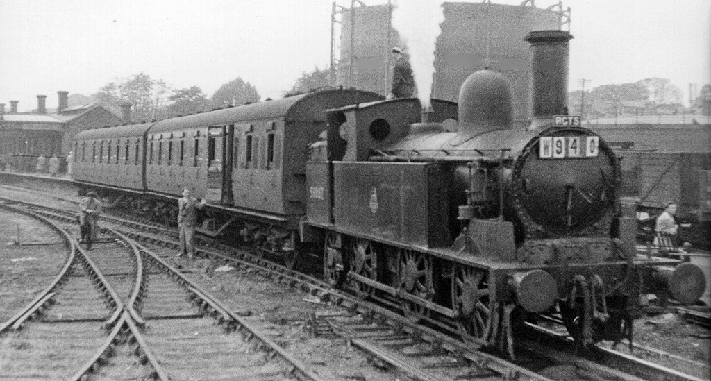 Aylesbury High Street Station (remains), with Last Day Rail Tour train. View southward, towards buffer-stops. This terminus of the ex-London & North Western branch from Cheddington was about to be closed to passengers (on 2/2/53), but remained for goods until 2/12/63. This Last Train was arranged by the RCTS (Railway Correspondence & Travel Society), the motive power being ex-London & North Western 'Coal Tank' 2F 0-6-2T No. 58887.